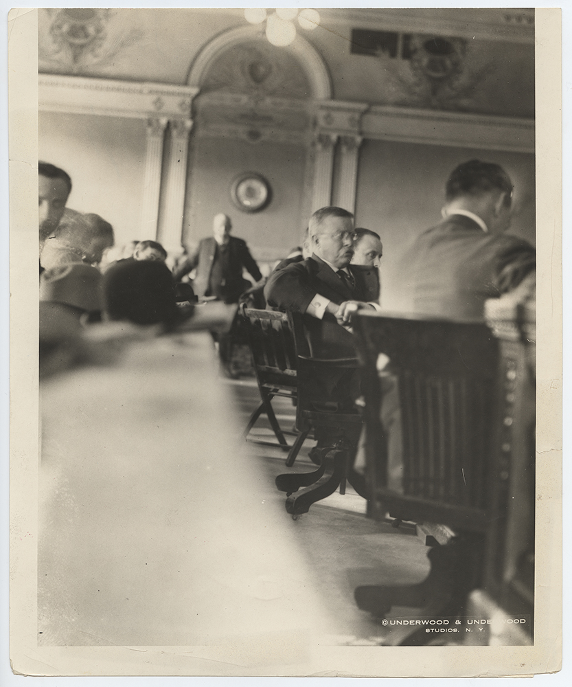 Title: [William Barnes vs. Theodore Roosevelt Libel Trial] Creator: Underwood & Underwood Date: April 19, 1915 Part of: Doris A. and Lawrence H. Budner Theodore Roosevelt Photograph Collection Place: Syracuse, New York Description: Roosevelt looks on during a 1915 trial in which he testified for 8 days. He was aquitted of all charges. Source: John Robert Greene, Theodore Roosevelt and the Barnes Libel Case: A Reappraisal, Presidential Studies Quarterly, Vol. 19, No. 1, 1989, p. 95-100, URL: Physical Description: 1 photographic print: gelatin silver; 24.5 x 20 cm File: ag1984_0324_12_9r_syracruse_opt.jpg Rights: Please cite the Doris A. and Lawrence H. Budner Theodore Roosevelt Collection, DeGolyer Library, Southern Methodist University when using this file. A high-resolution version of this file may be obtained for a fee. For details see the web page. For other information, . For more information and to view the image in high resolution, View the Doris A. and Lawrence H. Budner Collection on Theodore Roosevelt collection